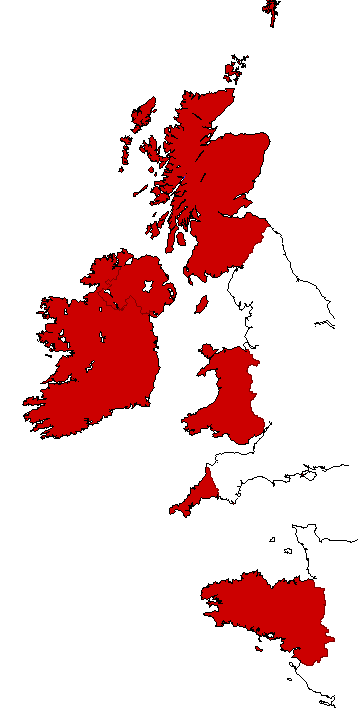 An mappa ma yw kepar hag Image:Chwe_Chenedl_Geltaidd.png, mes nyns eus avonyow na linennow dorles ha dorhys namoy. Ha rudh yw an tiredhow, yn tevri. QuartierLatin1968 04:52, 2 February 2006 (UTC)